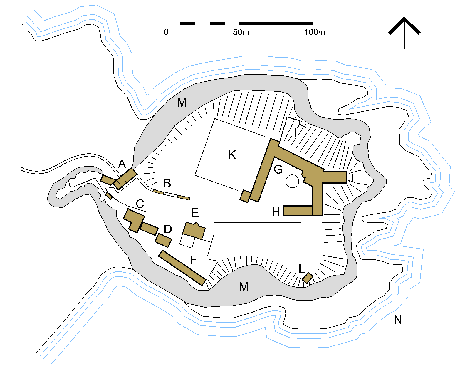 A plan of Dunnottar Castle, Aberdeenshire, Scotland Key: A Gatehouse and Benholm's Lodging · B Tunnels · C Tower house · D Forge · E Waterton's Lodging · F Stables · G Palace · H Chapel · I Postern gate · J Whigs' Vault · K Bowling green · L Sentry Box · M Cliffs · N North Sea